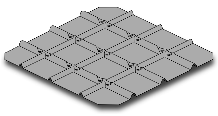 A piece of Technigaz membrane (No Text)